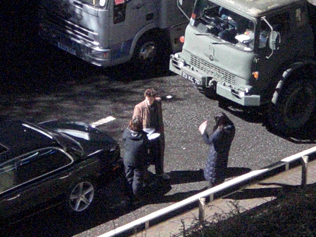 David Tennant and Michelle Ryan going over a few lines for "Planet of the Dead".